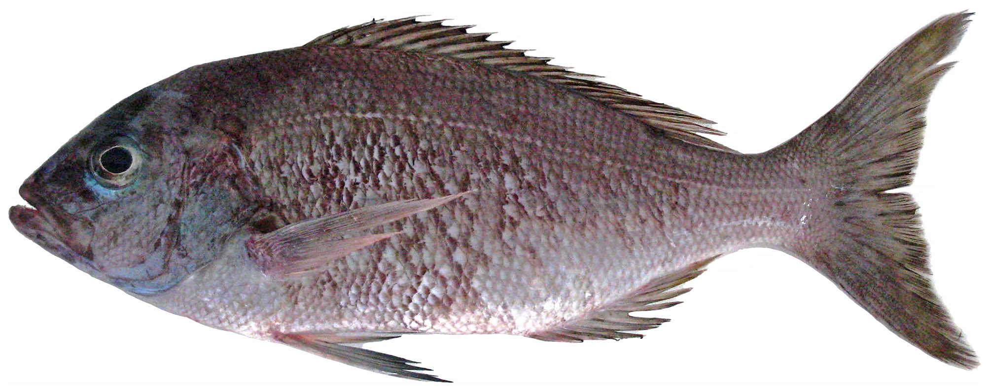 Apsilus dentatus Guichenot, 1853—black snapper, 234 mm SL. Photo by W Toller.